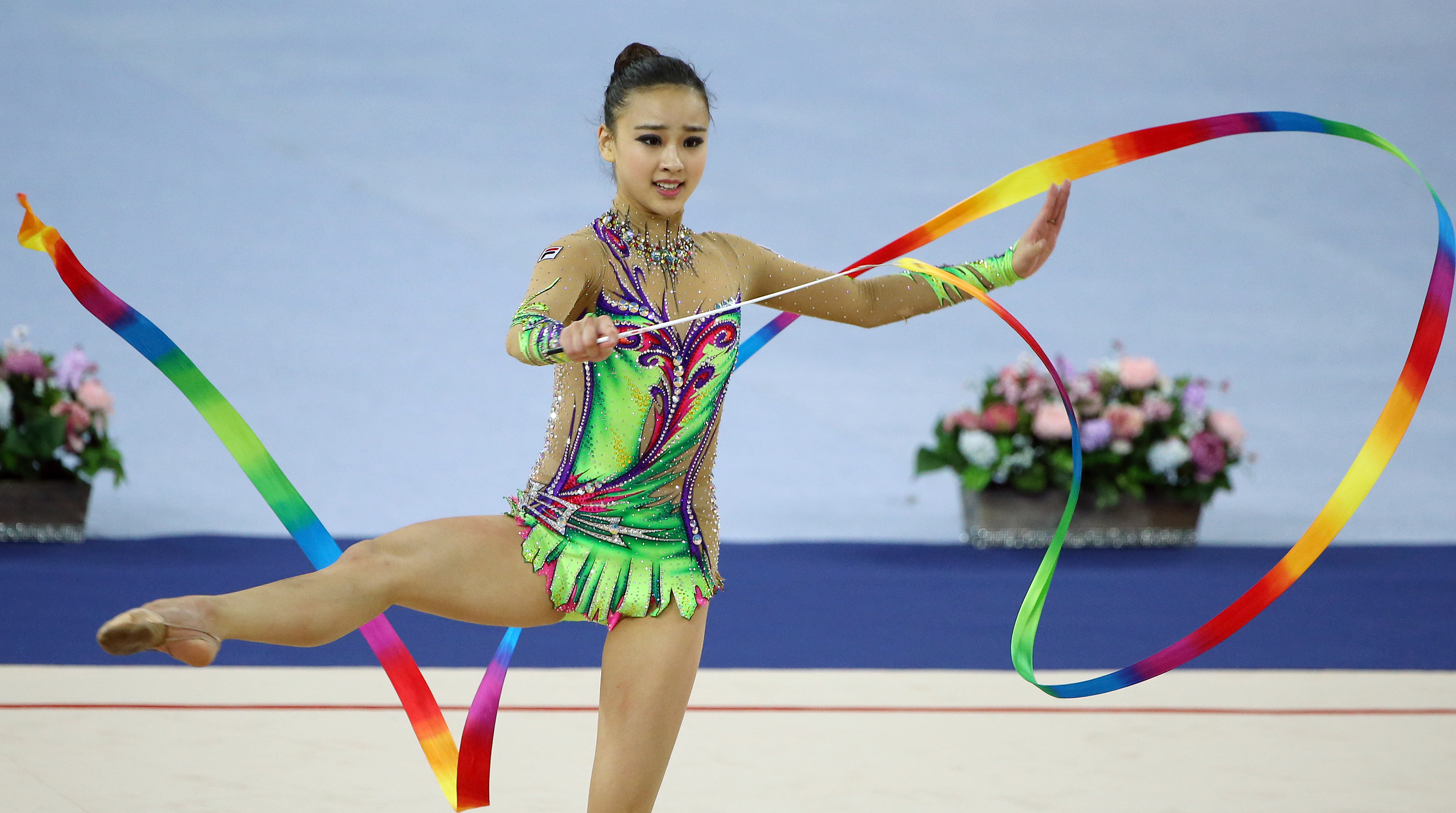 Incheon Asian Games 2014 Gymnastics Rhythmic Korea Son Yeonjae Son Yeonjae of South Korea performs during the gymnastics rhythmic individual final at the 17th Asian Games in Incheon, October, 1. October 2, 2014 Namdong Gymnasium, Incheon-si Ministry of Culture, Sports and Tourism Korean Culture and Information Service ( Official Photographer : Jeon Han This official Republic of Korea photograph is being made available only for publication by news organizations and/or for personal printing by the subject(s) of the photograph. The photograph may not be manipulated in any way. Also, it may not be used in any type of commercial, advertisement, product or promotion that in any way suggests approval or endorsement from the government of the Republic of Korea. If you require a photograph without a watermark, please contact us via Flickr e-mail. 2014 인천 아시아경기대회 리듬체조 손연재가 2일 인천시 남동체육관에서 열린 ‘2014 인천 아시아경기대회’ 리듬체조 개인전 결승에서 리본 연기를 펼치고 있다. 2014-10-02 남동체육관, 인천시 문화체육관광부 해외문화홍보원 코리아넷 전한